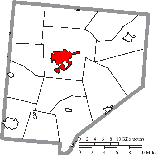 Map of the municipal and township boundaries of Clinton County, Ohio, United States, as of the 2000 census, with the location of the city of Wilmington highlighted. Township borders are shown only in unincorporated areas in order to differentiate incorporated and unincorporated areas more clearly.